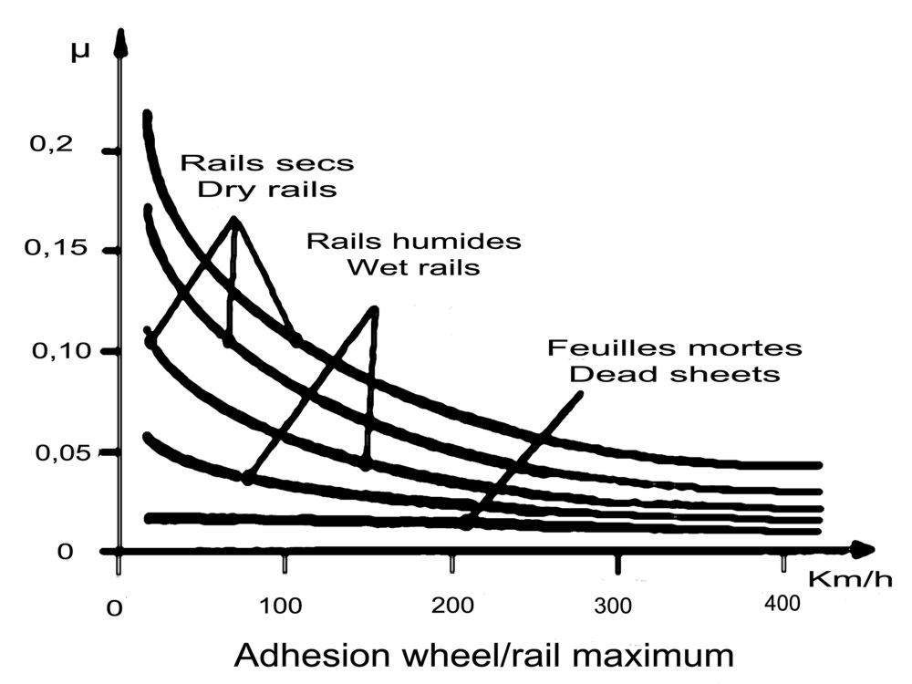 adhesion wheel/rail graph